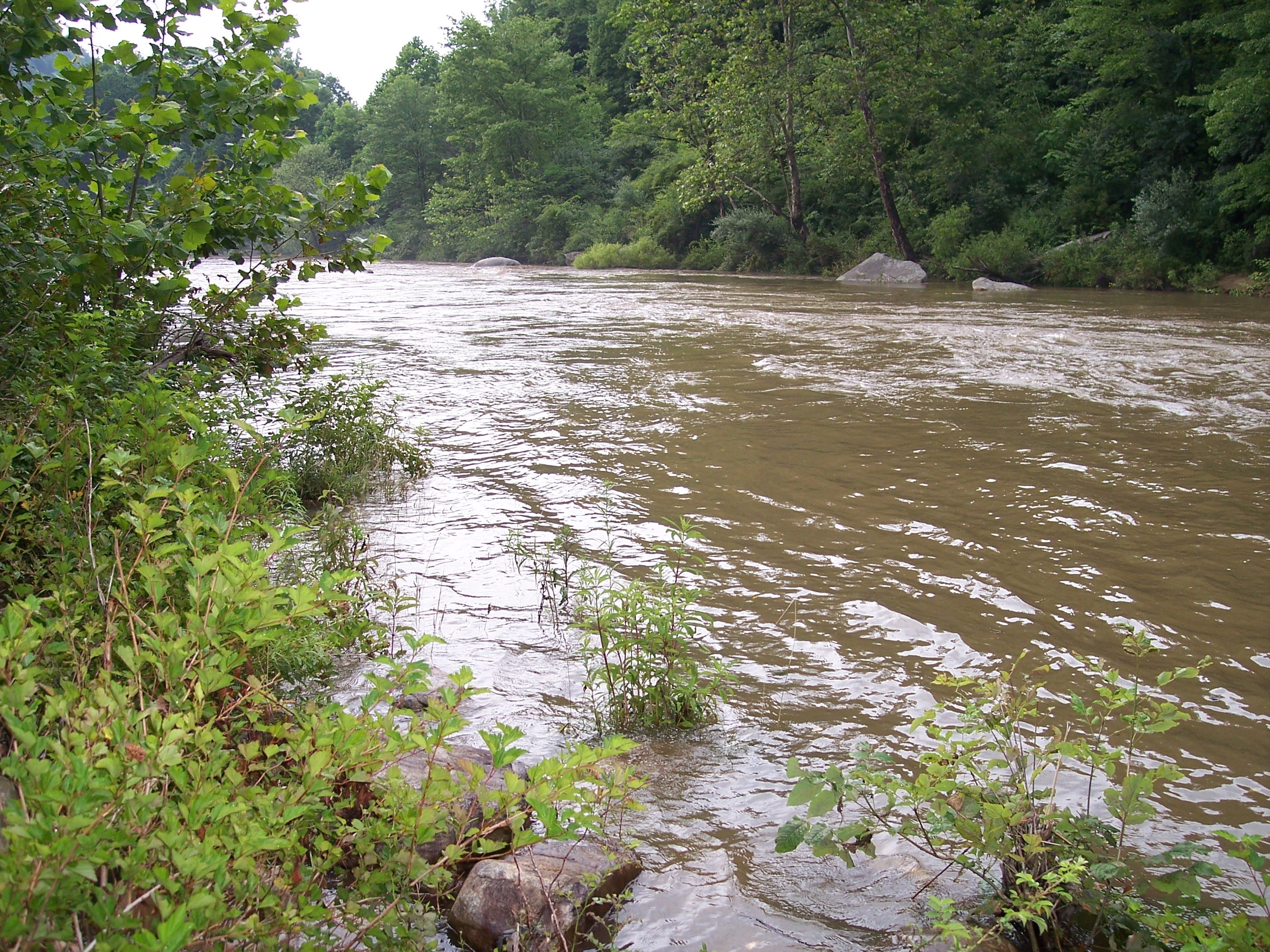 The Cherry River near the community of Holcomb in Nicholas County, West Virgina. The river is running high following a heavy rain.